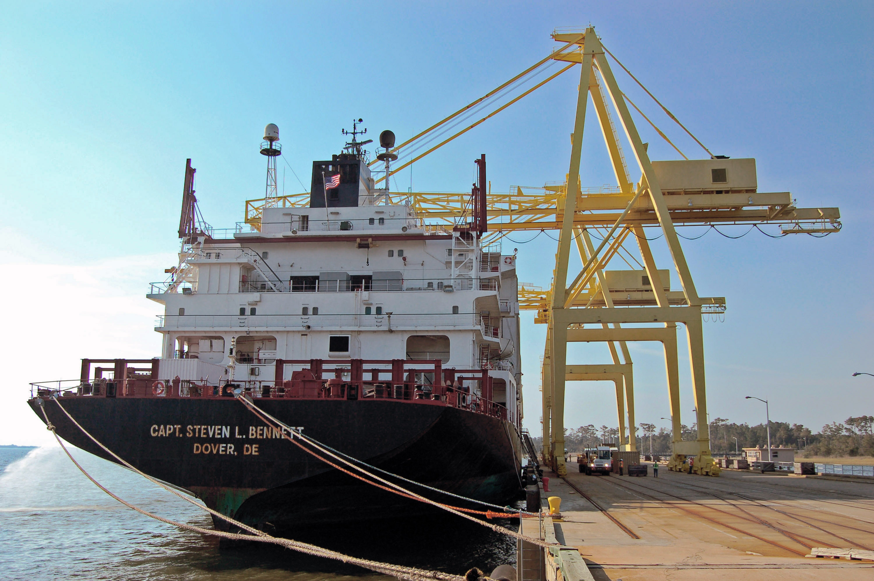 The MV Capt. Steven L. Bennett, one of the Air Force's Afloat Pre-positioned Fleet ships, sits at one of the docks Oct. 16 at the Military Ocean Terminal-Sunny Point, N.C. The APF ships are loaded with thousands of tons of munitions and then sail to a predetermined point in the Pacific or Indian Ocean where they wait to offload their cargo when needed. The Bennett is one of four ships belonging to the APF.